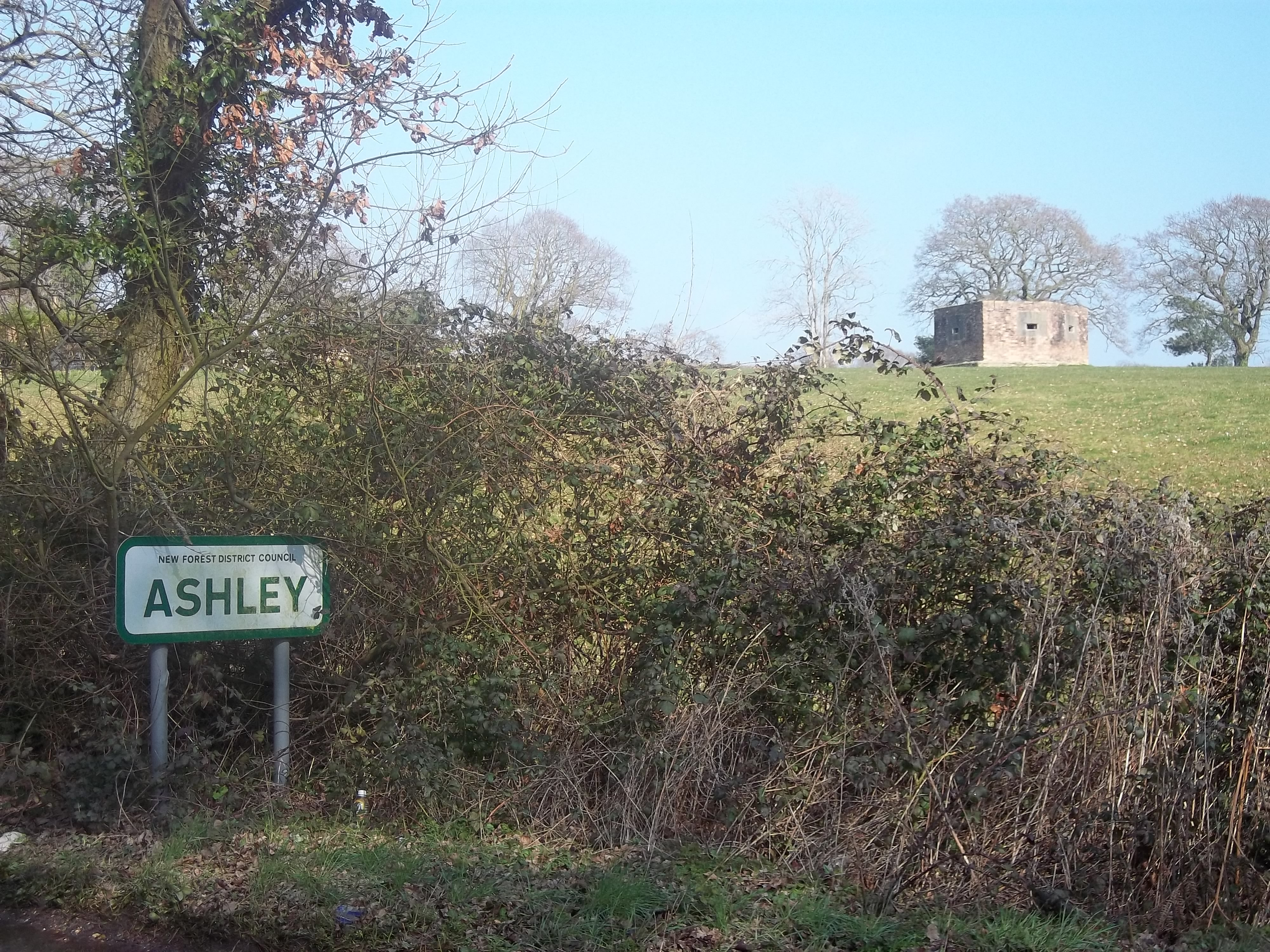 Pillbox (right) visible in the fields of Ashley, Hampshire, England.